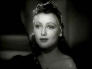 Cropped screenshot of Virginia Grey from the trailer for the film Dramatic School